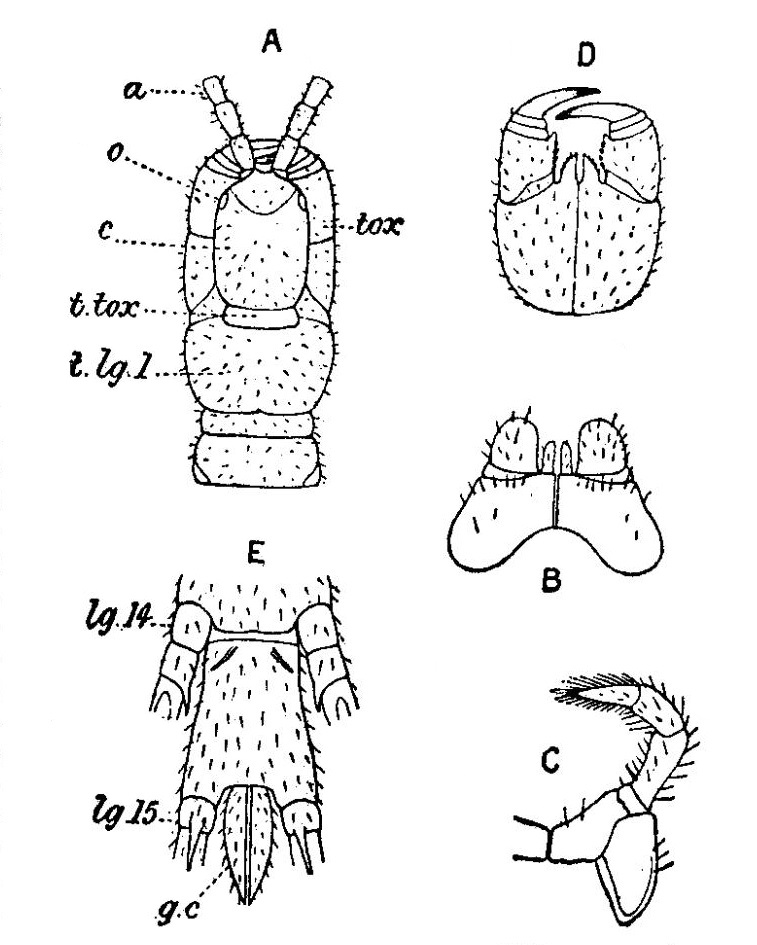 A, Anterior end of Craterostigmus from above. a, Basal segments of antennae. c, Cephalic plate with eyes (o). t.tox, Tergal plate of somite bearing toxicognaths (tox). t.lg.1, Tergal plate of somite bearing legs of the first pair. B, Maxillae. C, Palpognath. D, Toxicognath. E, Last segment with genital capsule (g.c), and basal segments of legs of 14th and 15th pairs (lg. 14, lg. 15). After Pocock. Q.J.M.S. vol. 45, pl. 23, 1902.